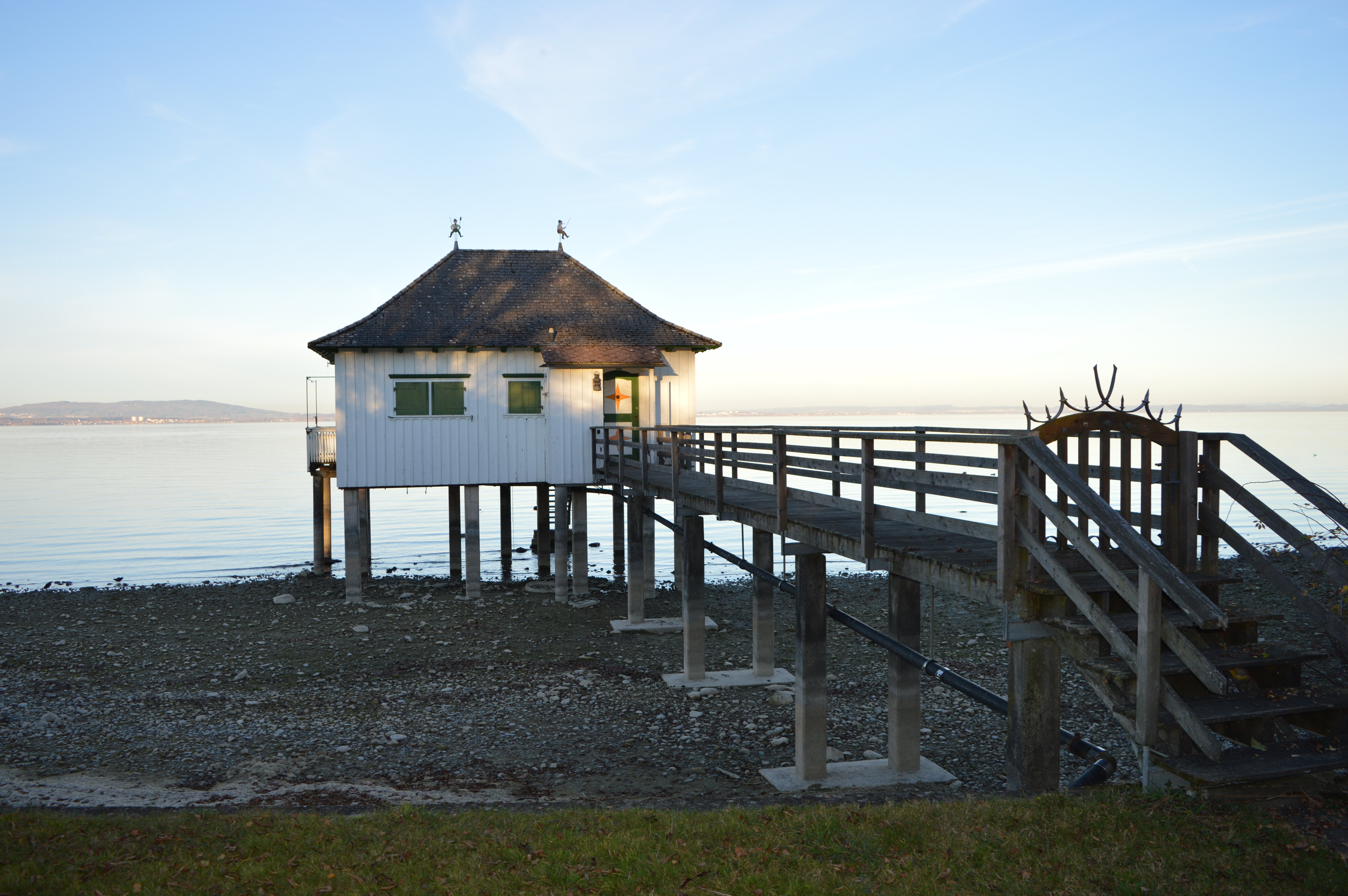 Kesswil, canton of Thurgovia, SwitzerlandEsperanto: Kesswil, Kantono Turgovio, Svislando